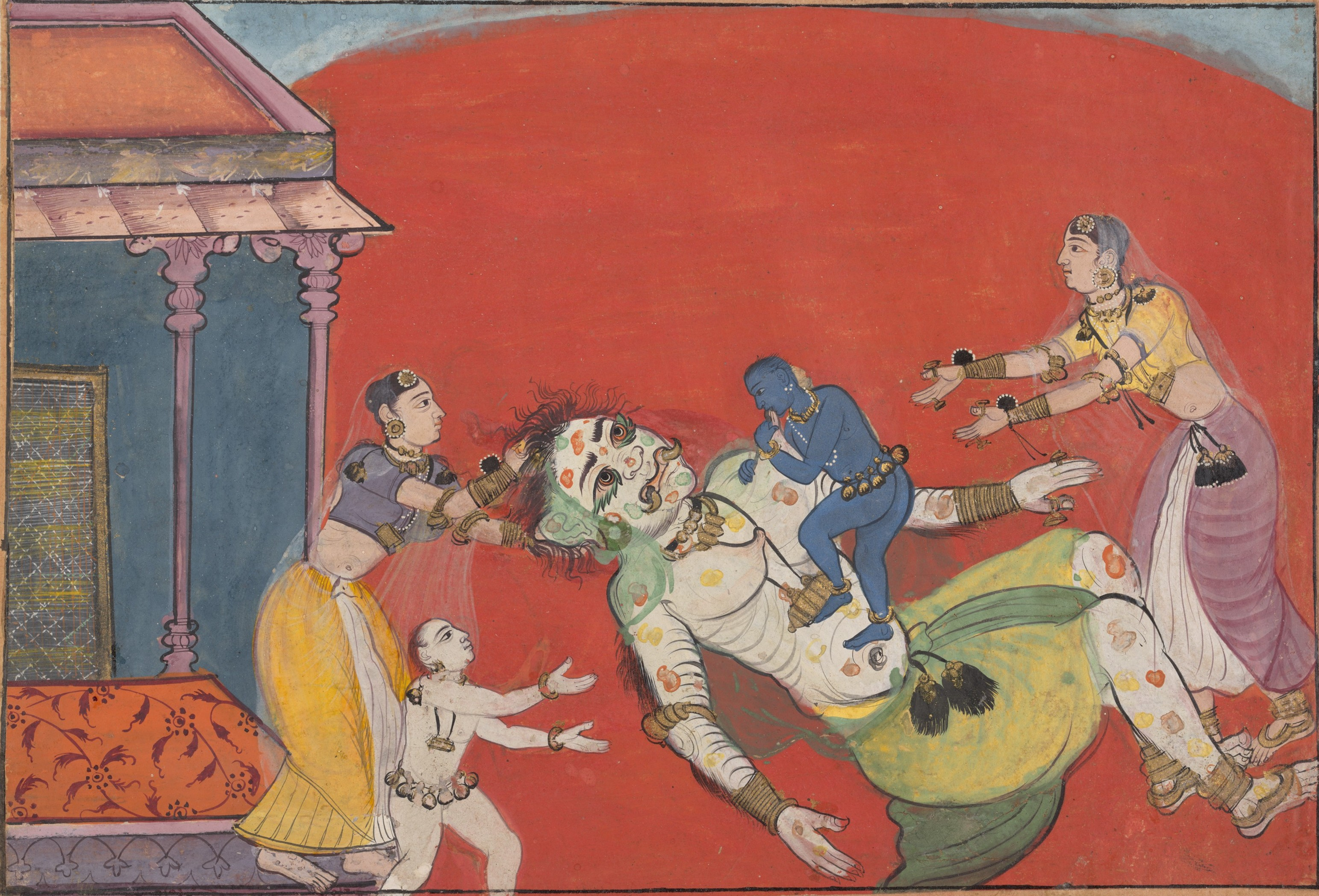 "The Death of the Demoness Putana: Page from a dispersed Bhagavata Purana (Ancient Stories of Lord Krishna), ca. 1610 India (Rajasthan, Bikaner) Ink and opaque watercolor on paper; Image: 6 5/8 x 9 5/8 in. (16.8 x 24.4 cm); Page: 9 5/8 x 11 7/8 in. (24.4 x 30.2 cm)"